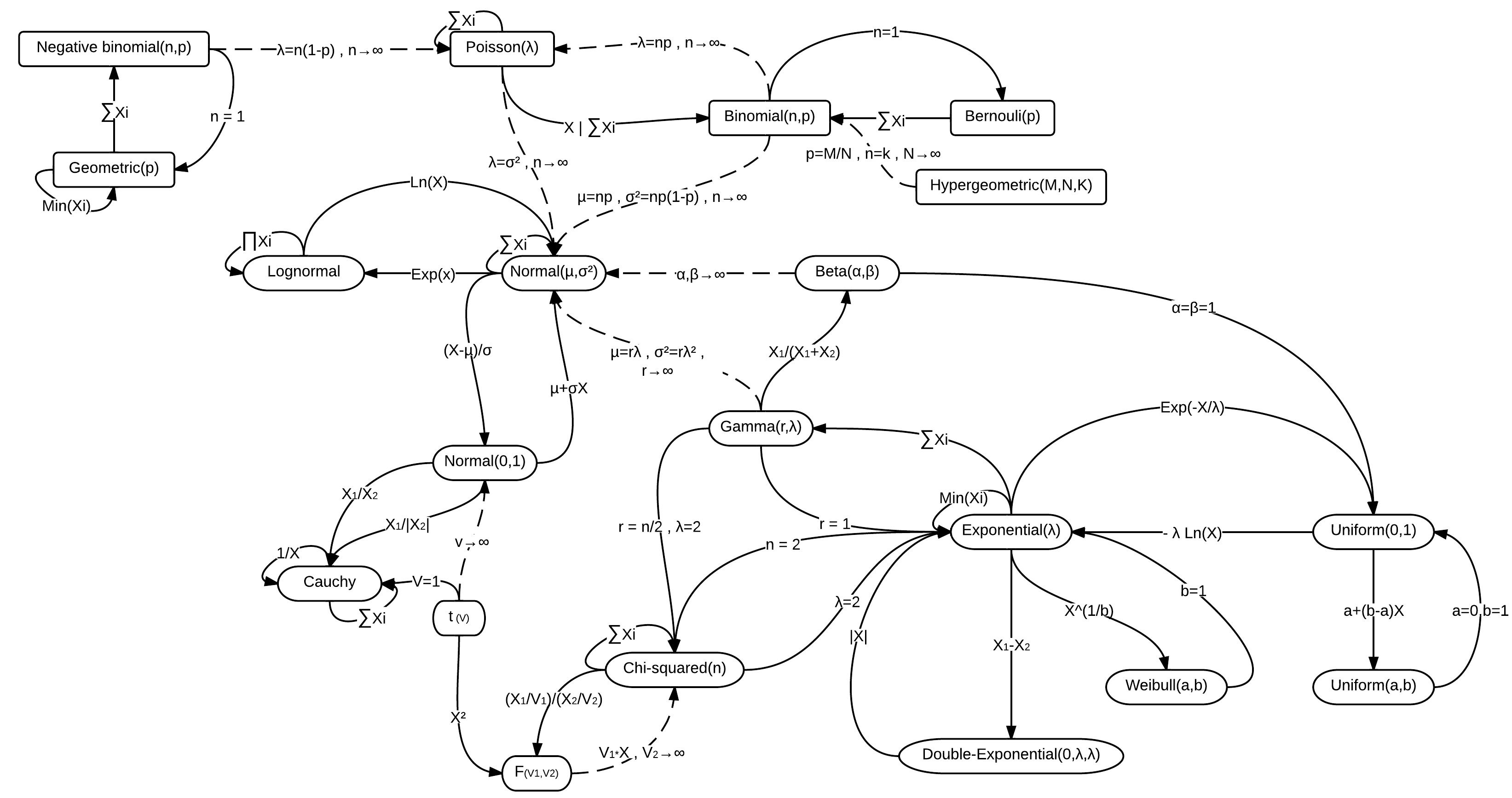 Relationships among some of univariate probability distributions are illustrated with connected lines. dashed lines means approximation relationship. more info: LEEMIS, Lawrence M.; Jacquelyn T. MCQUESTON (February 2008). [ "Univariate Distribution Relationships"]. American Statistician 62 (1): 45-53.